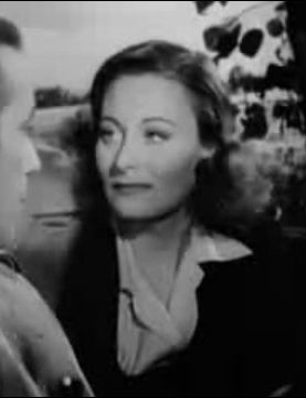 Cropped screenshot of Michèle Morgan from the trailer for the film Passage to Marseille